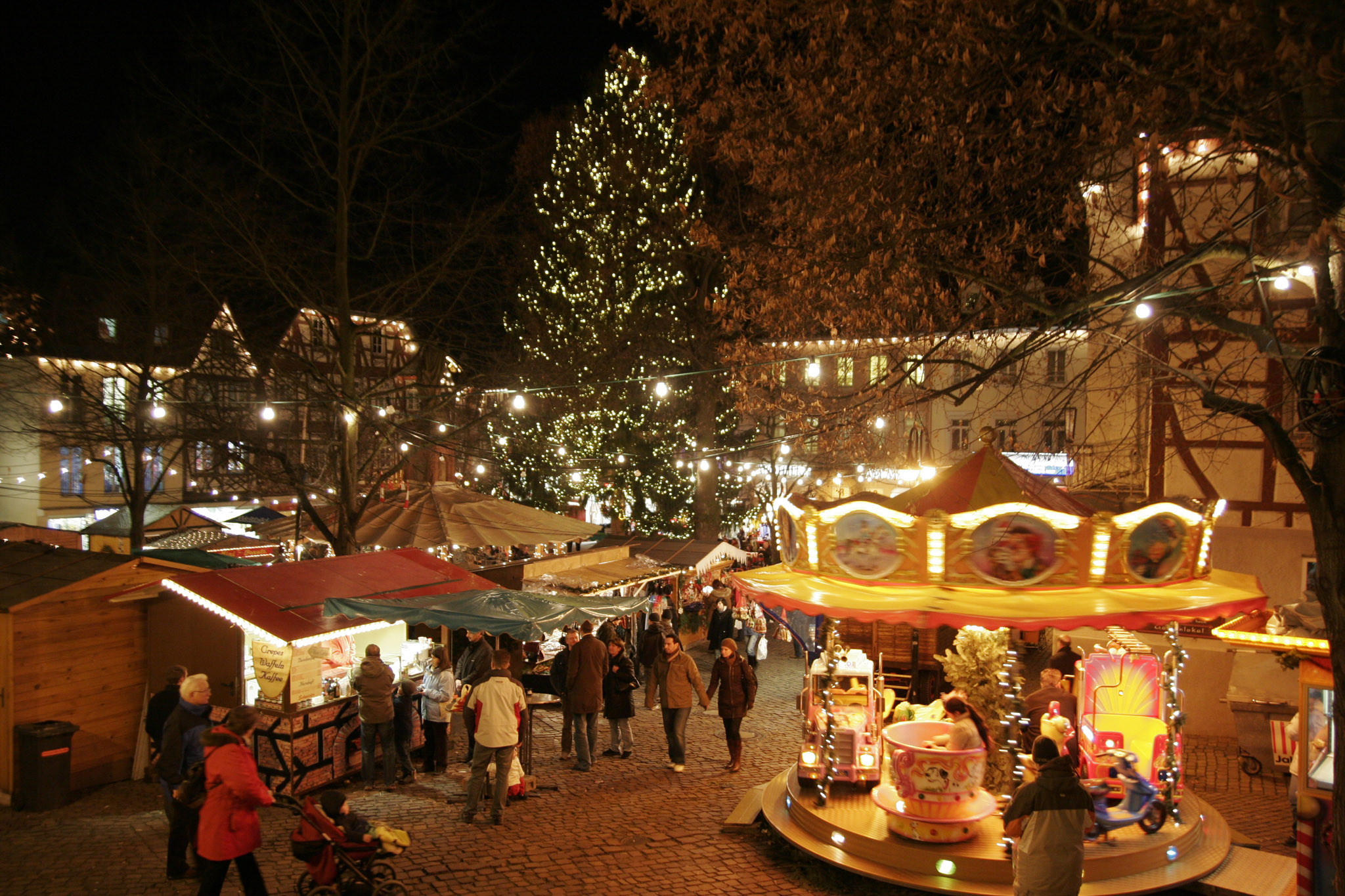 The marketplace of the city of Bensheim on December 13th 2007 (Christmas market)